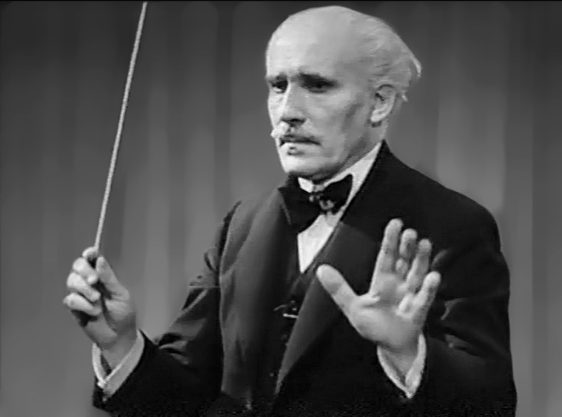 Arturo Toscanini from "Hymn of the Nations".And playing the "La forza del destino" Overture